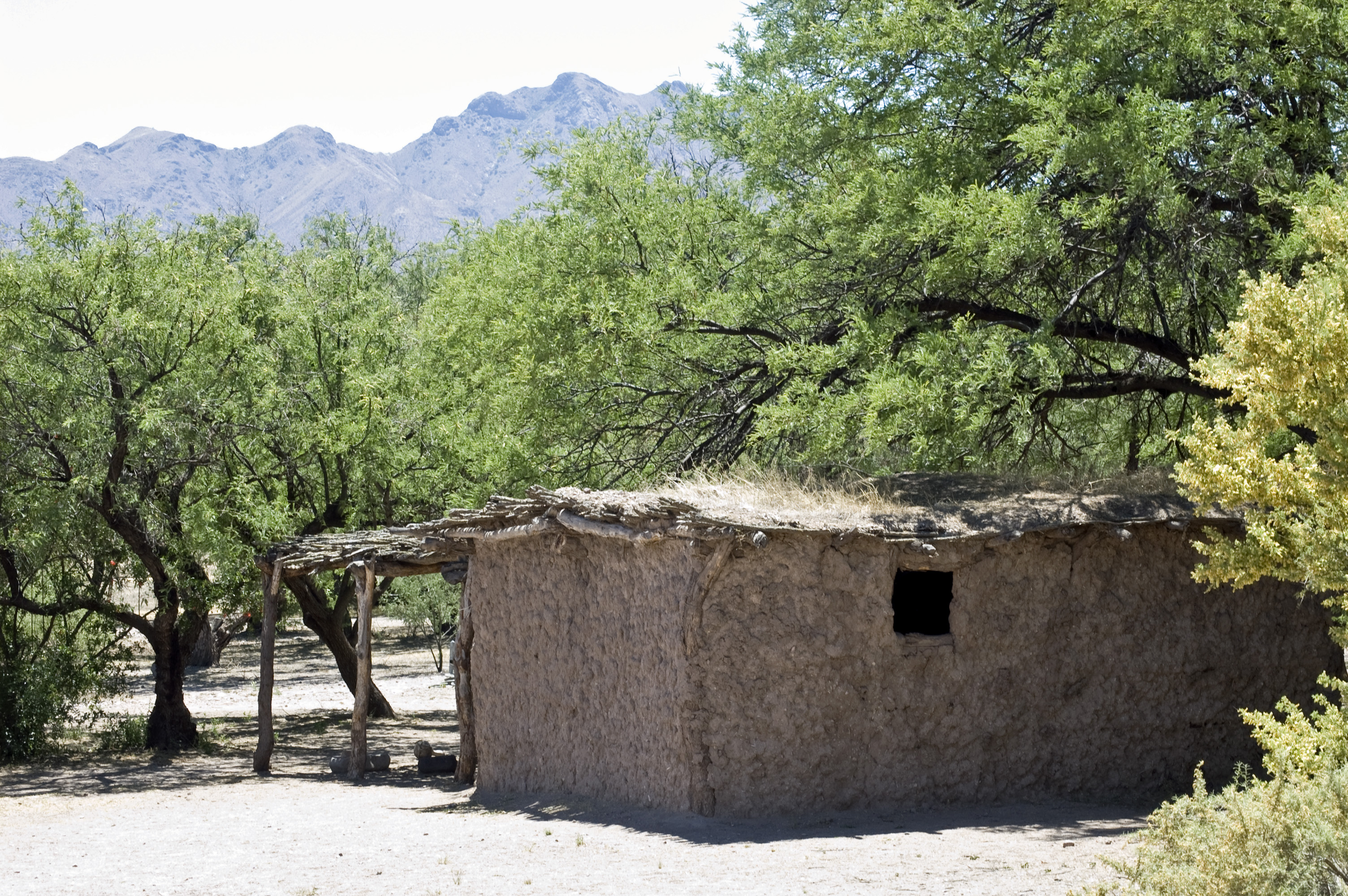 This wattle house was constructed by members of the O'ohdam tribe in the traditional manner. Located on the grounds of the Mission San José de Tumacácori, in Tumacacori National Historical Park, southern Arizona. The name "Tumacácori" may have been derived from two O’odham words, chu-uma and kakul, having reference to a flat, rocky place. Father Kino established it as a mission in January 1691, making it the oldest mission site in Arizona. Construction of this church began in 1800 and took many years to complete.